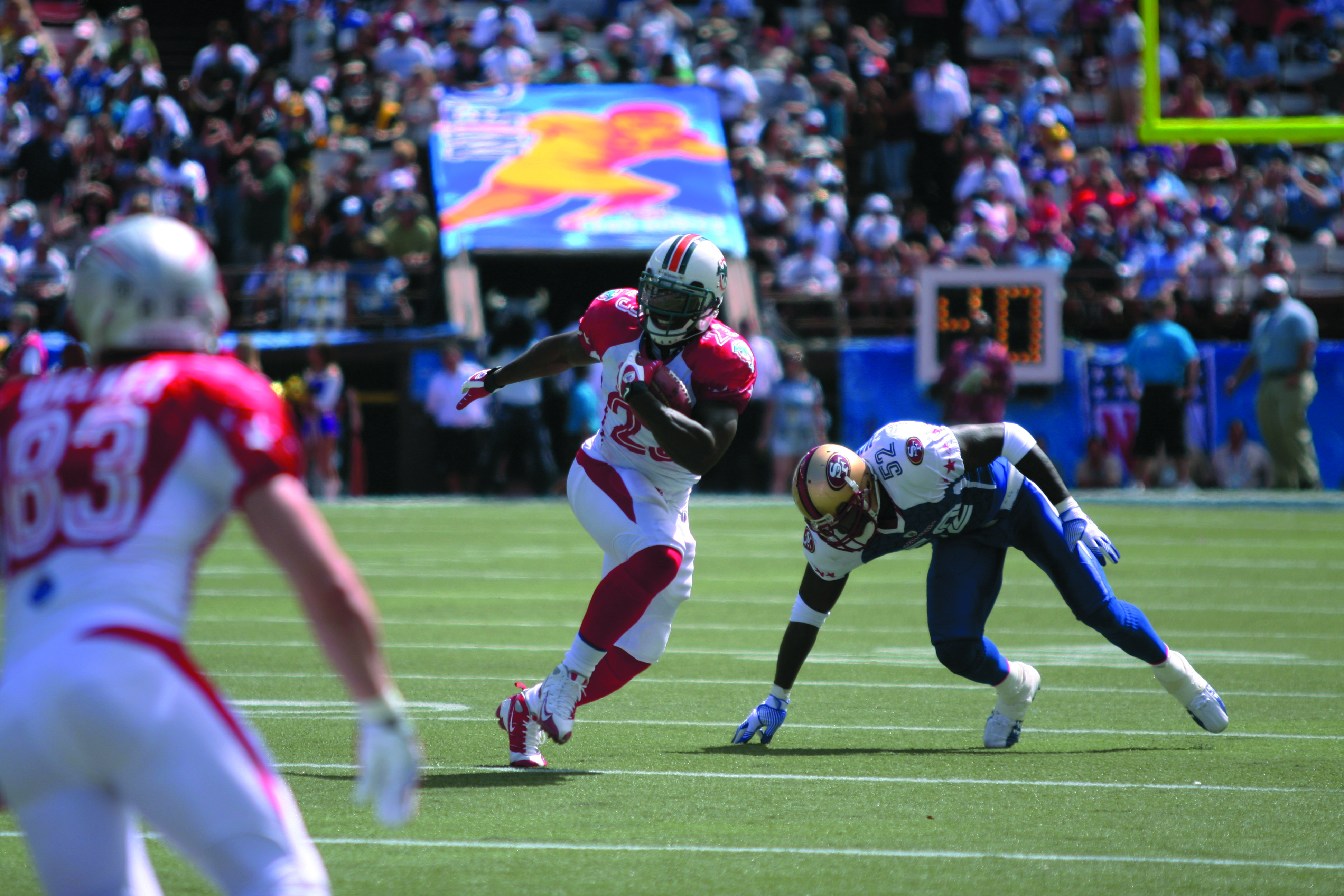 Miami Dolphins' running back Ronnie Brown maneuvers past San Francisco 49ers' Patrick Willis during the 2009 Pro Bowl on February 8, 2009 at Aloha Stadium.